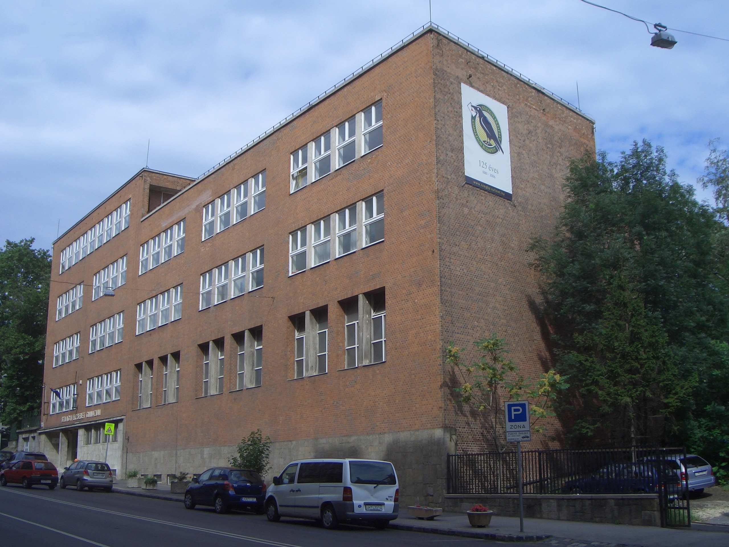 "Erzsébet Szilágyi" Gymnasium (Grammal School) in Budapest 01, Mészáros utca (street), view from the east